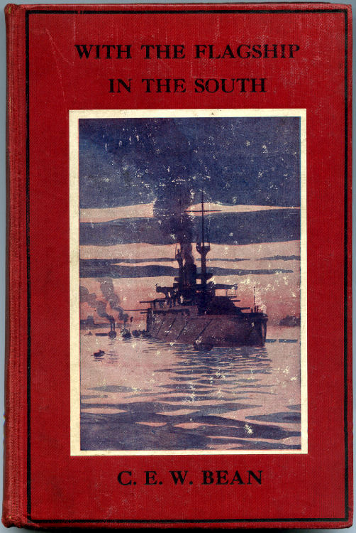 Cover of book by Charles Bean With the Flagship in the South - a description of the time he spent on HMS Powerful from August 1908